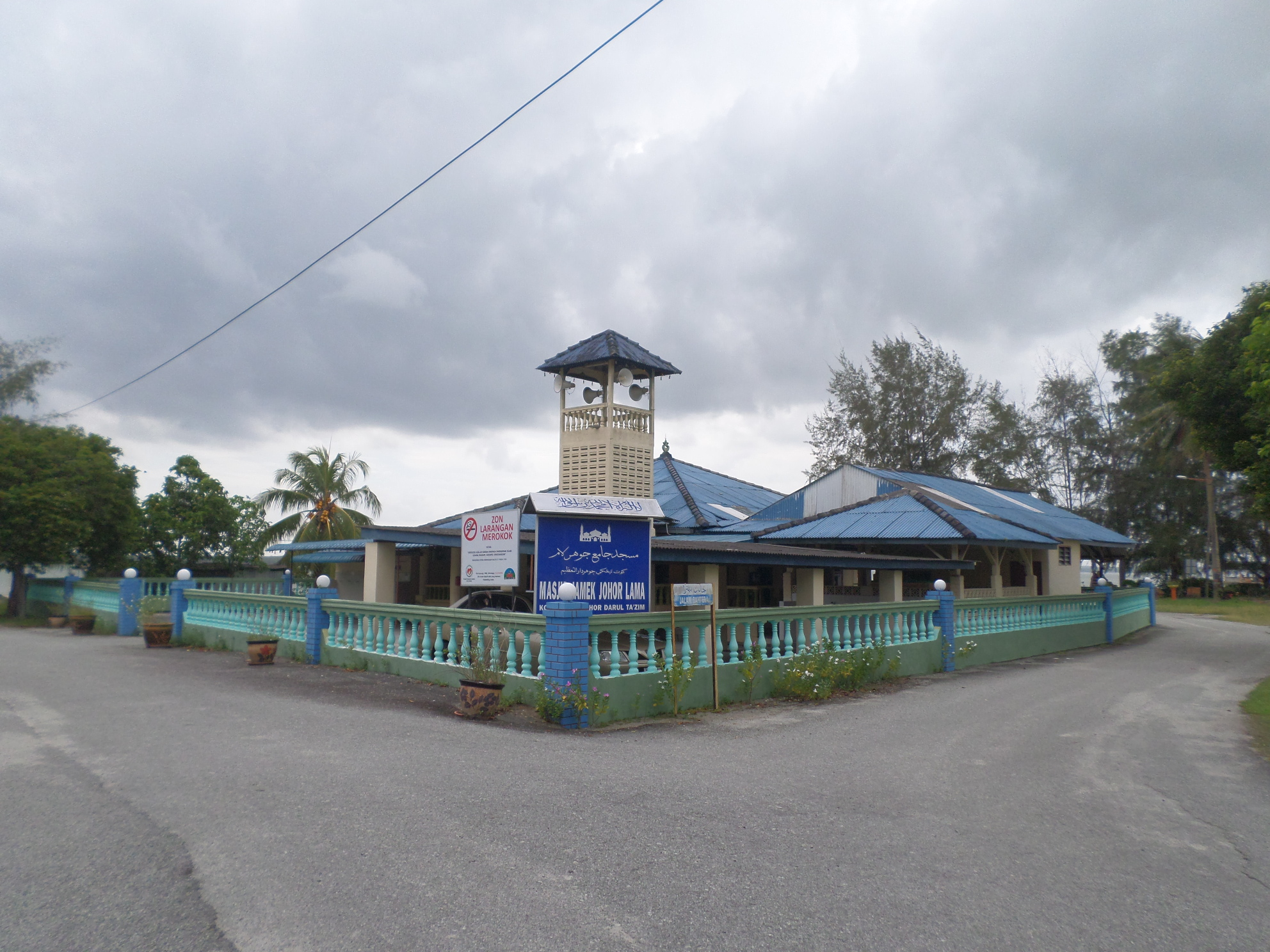 Johor Lama Jamek Mosque, Johor Lama, Kota Tinggi, Johor, Malaysia